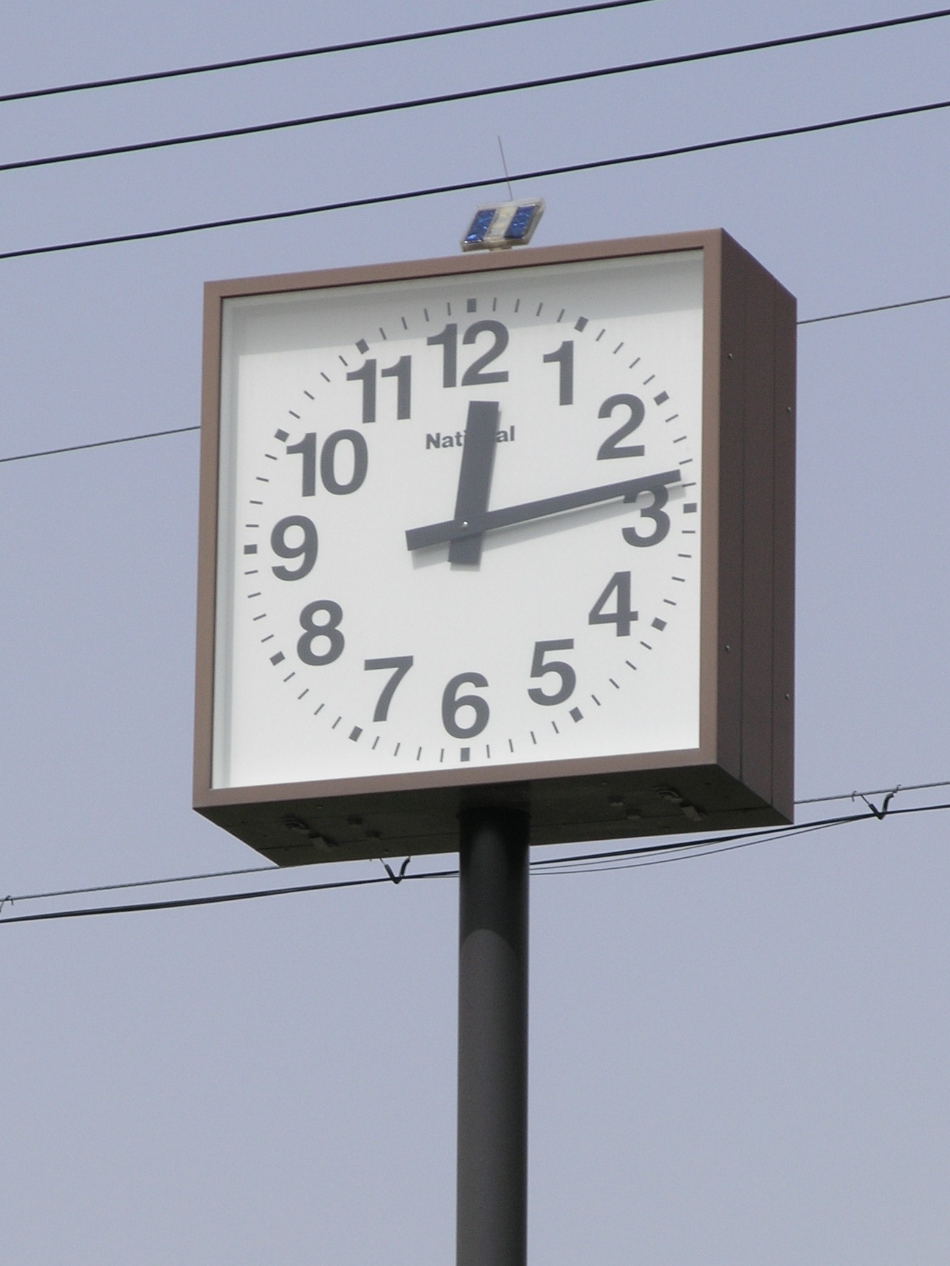 National (Panasonic) Solar powered clock